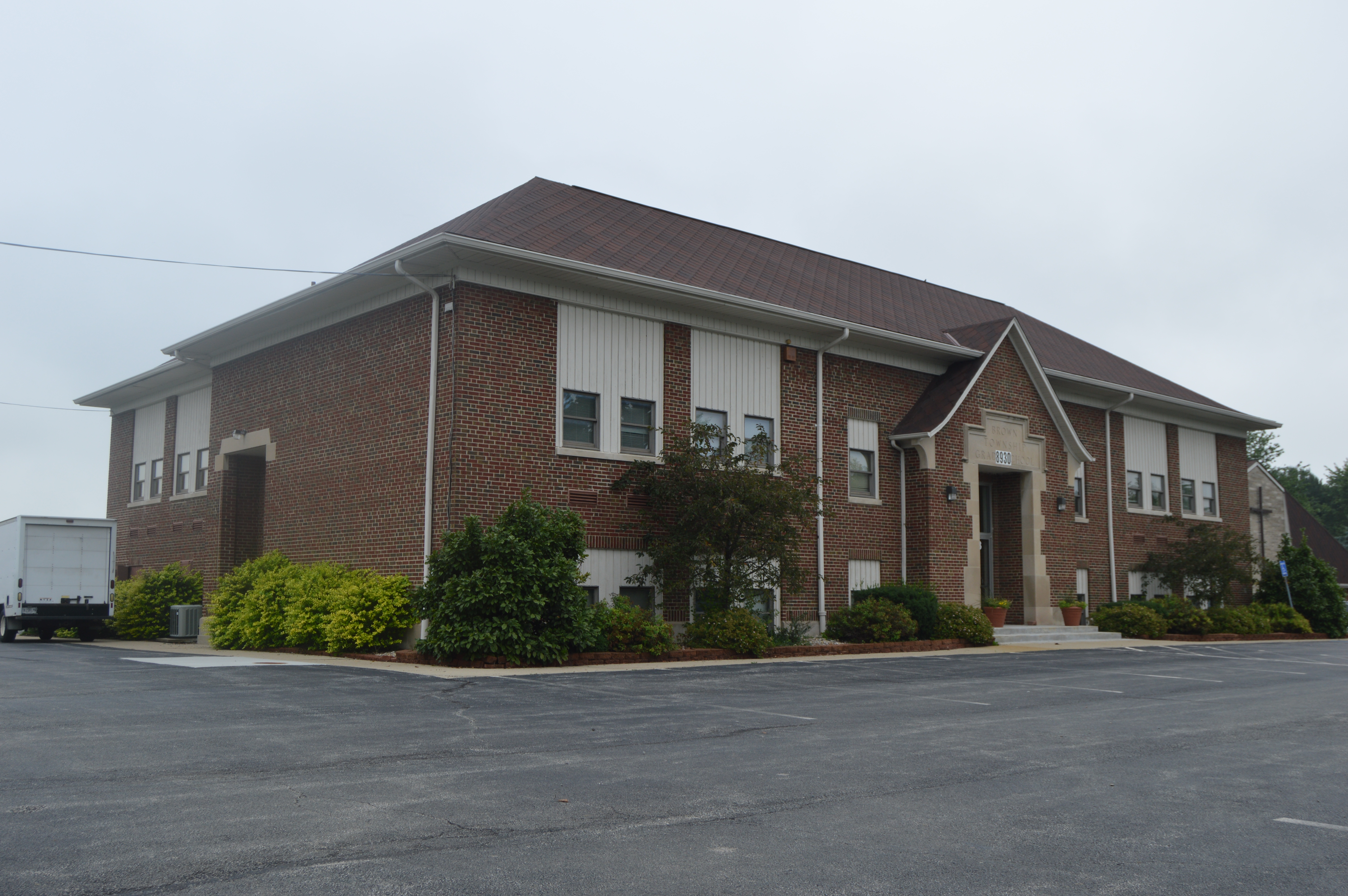 Front and southern end of the former Brown Township Elementary School, located at 8930 State Road 267 in Brown Township, Hendricks County, Indiana, United States. Built in 1928, it is now part of a church complex.